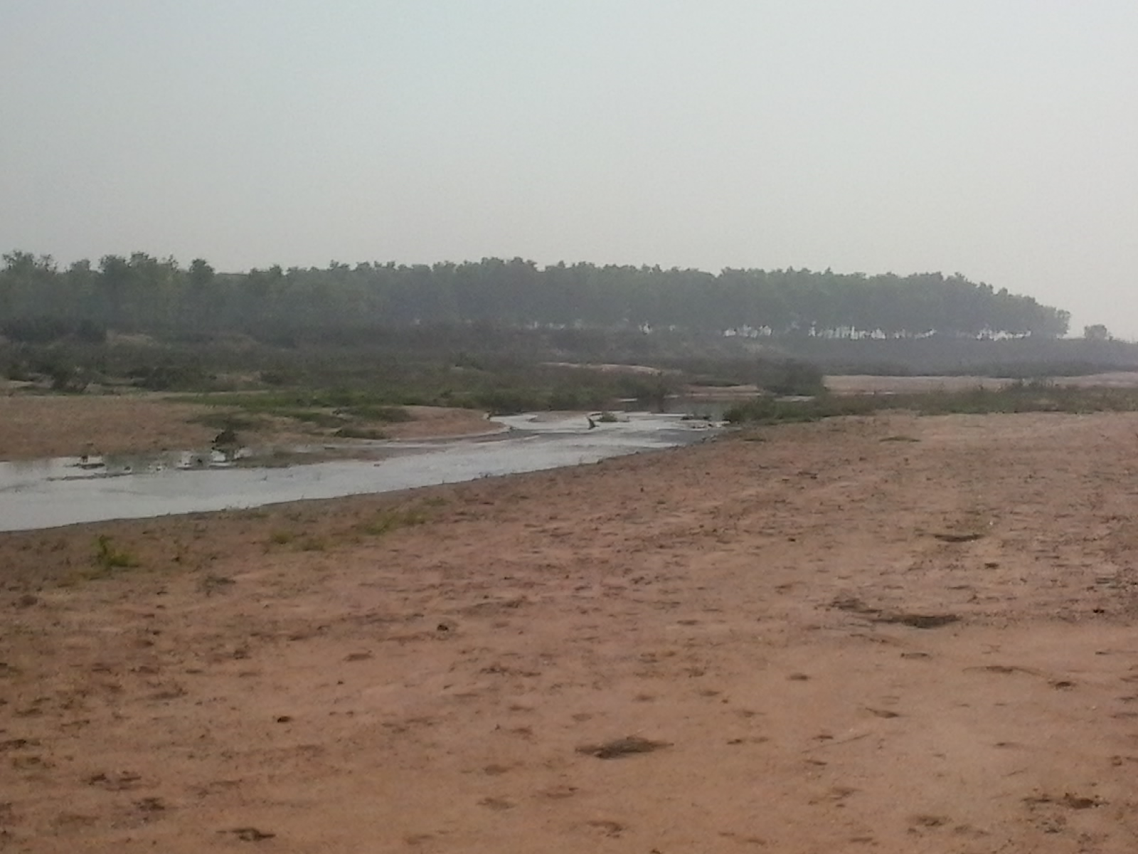 Hinglo met with Ajay river near Palashdanga, Birbhum